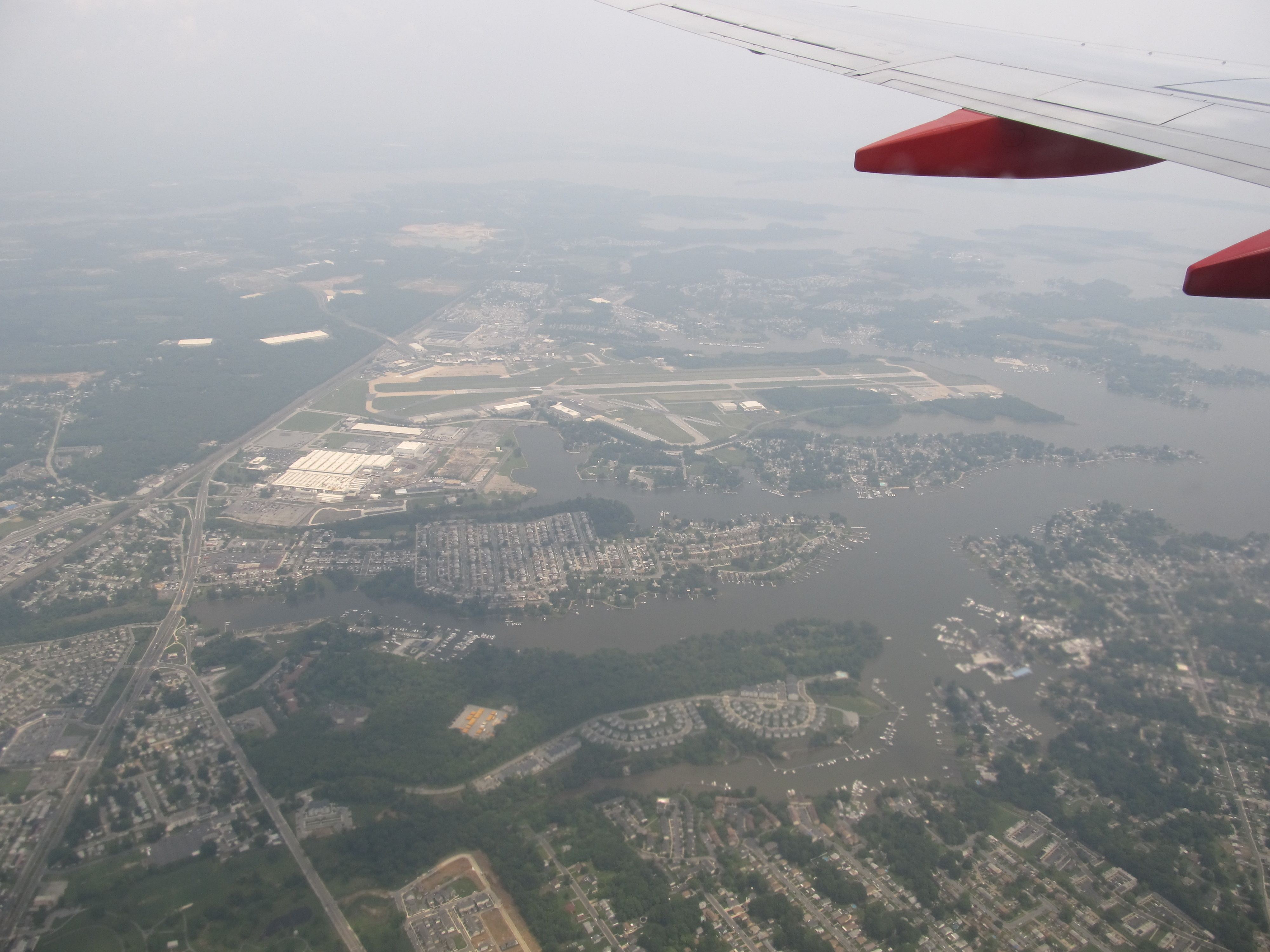 Middle River, Maryland